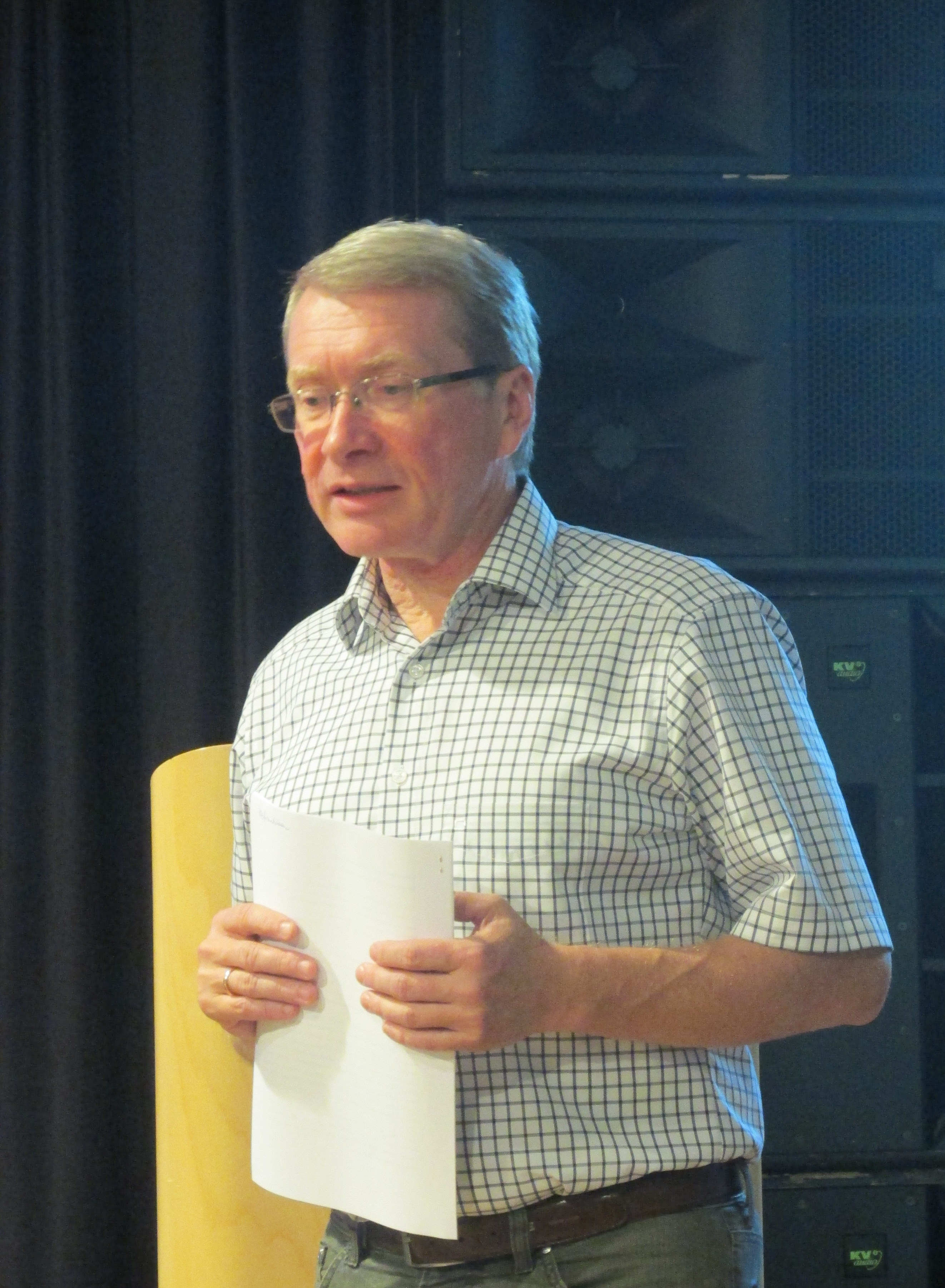 Estonian archaeologist and historian Anton Pärn in 2014.